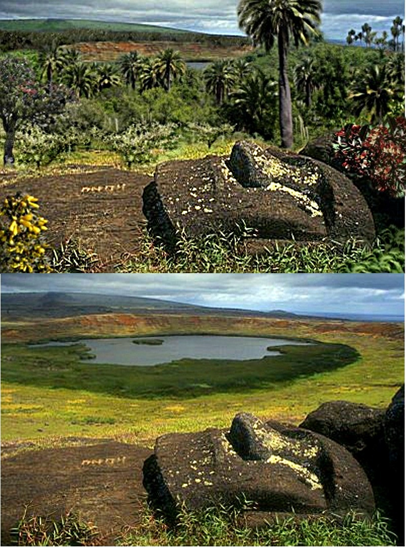 Eastern Island: ancient landscape -with Paschalococos or Jubaea, Sophora toromiro and Santalum, among other species, and contemporary lanscape.